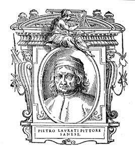 Illustratio from "Le Vite" by Giorgio Vasari, edition of 1568. For the artist portrayed see filename